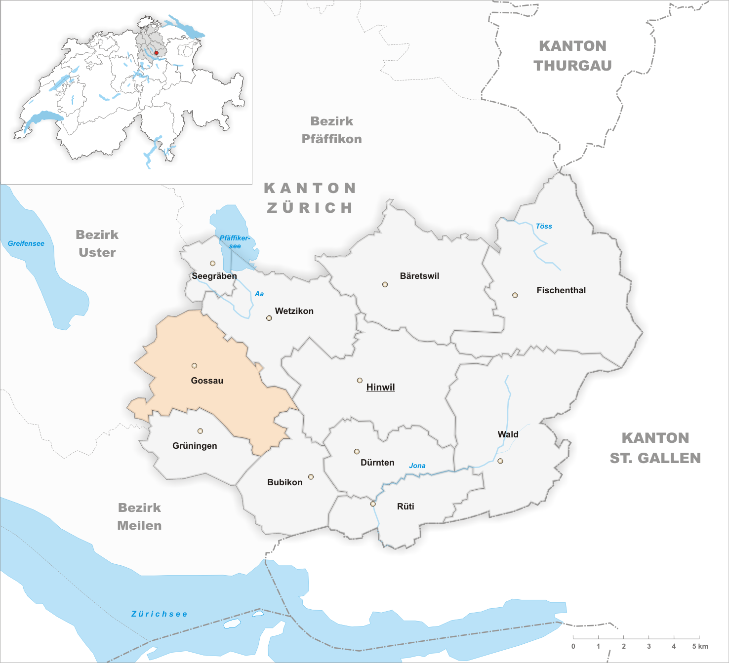 Municipality Gossau